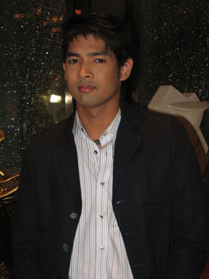 Arnas Lapanich